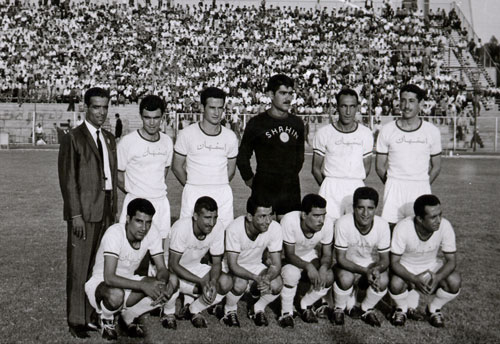 Shahin Esfahan